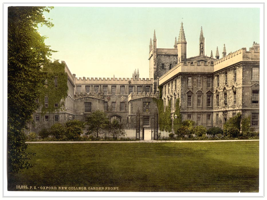 New College garden front Oxford England